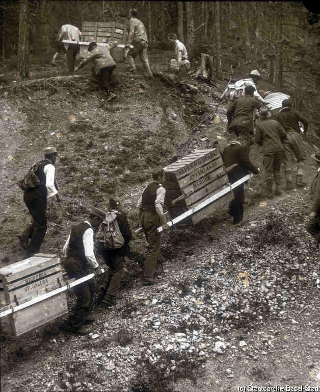 Ibex release in the valley Val Tantermozza (Grisons, Switzerland), 1933.